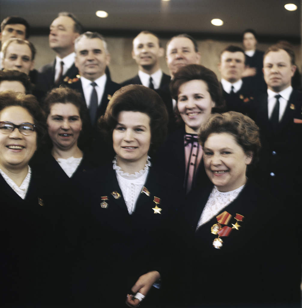 “Soviet cosmonaut Valentina Tereshkova”. Soviet cosmonaut Valentina Tereshkova (center) among delegates of the 24th CPSU congress.